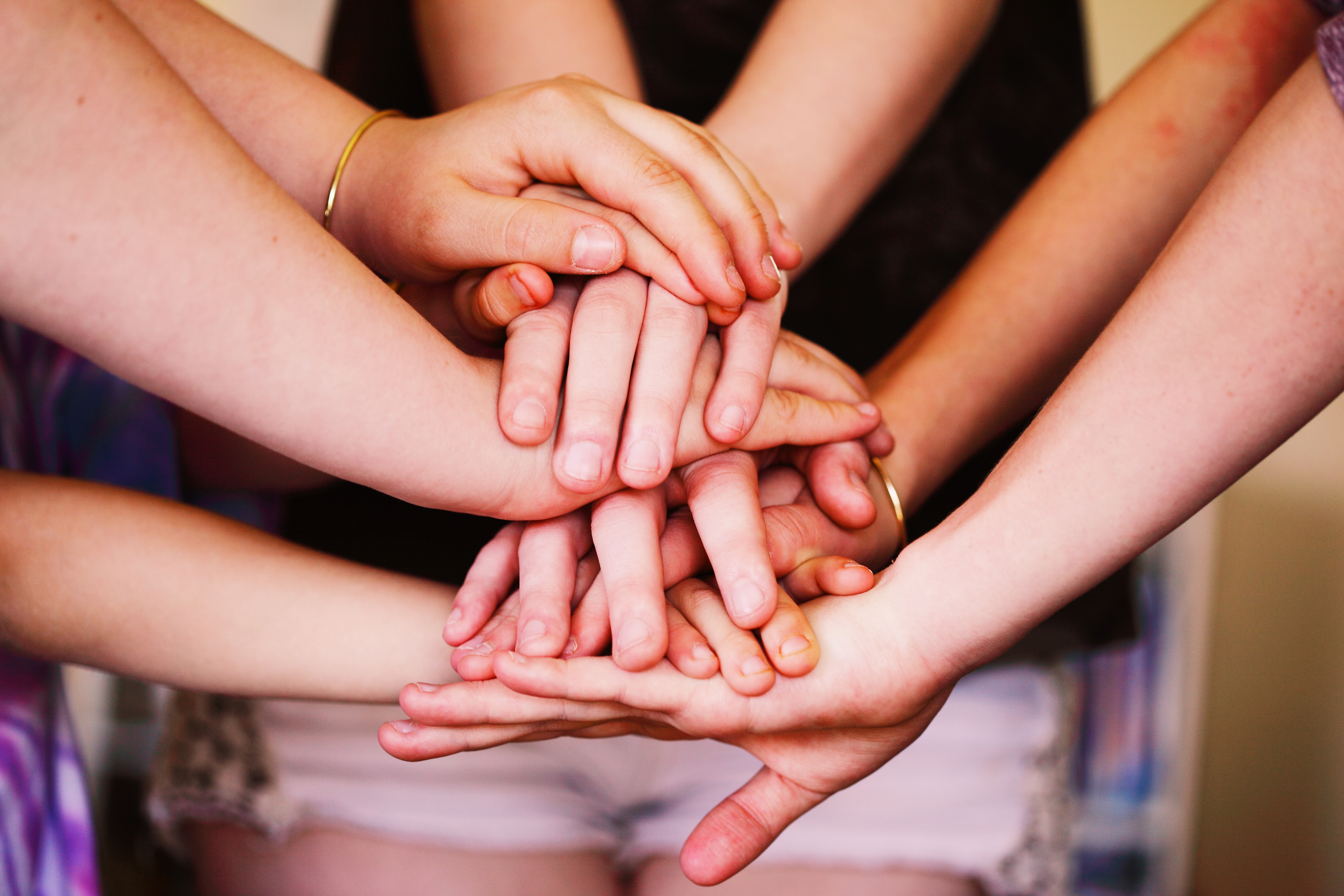 HELLO PLANET EARTH! We are paying it forward All of the free Creative Commons images you see here have been created by and are courtesy of Sharon & Nikki McCutcheon. We respectfully ask that if you use our free images that you please give photo copyright credits to "Sharon & Nikki McCutcheon". We are two women, just here to pay it forward with free stock images for everyone! The universe has given us more than we could have ever asked for and we believe in paying it forward. We create each and every image with love and positive energy. Please use our free high resolution, professional quality stock images as needed. We ask absolutely nothing in return, but it would be nice if you payed it forward, too! Share some love, do something nice for somebody else and watch the universe smile :) EMAIL US